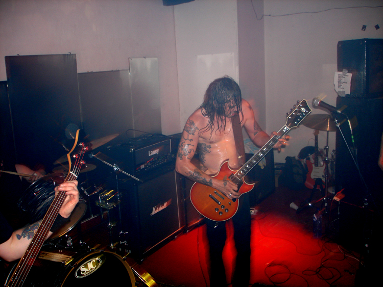 Photo of High on Fire live 2008